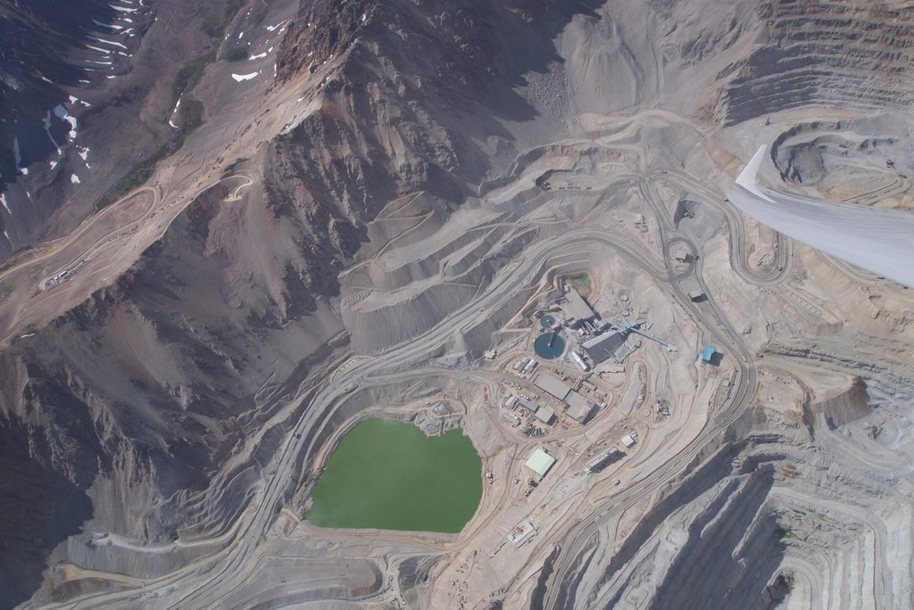 Copper mine (Chile) as seen from a glider, during training for FAI World Grand Prix 2010